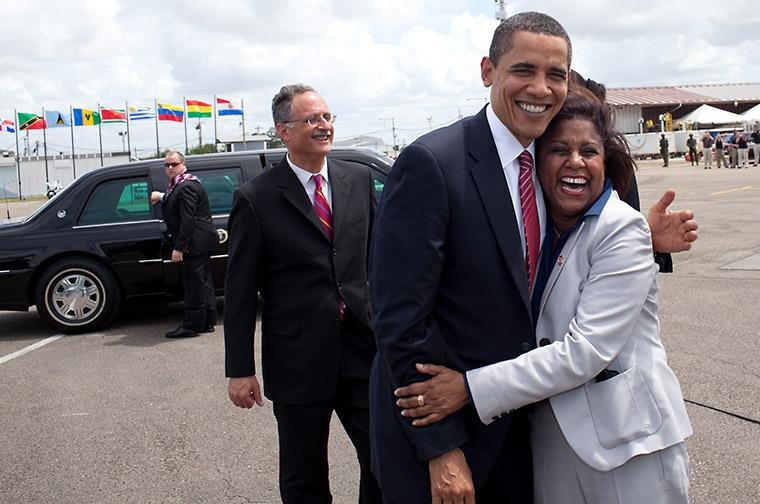 Trinidad and Tobago foreign minister Paula Gopee-Scoon bids farewell to President Obama at Piarco International Airport following the 5th Summit of the Americas on April 19, 2009.